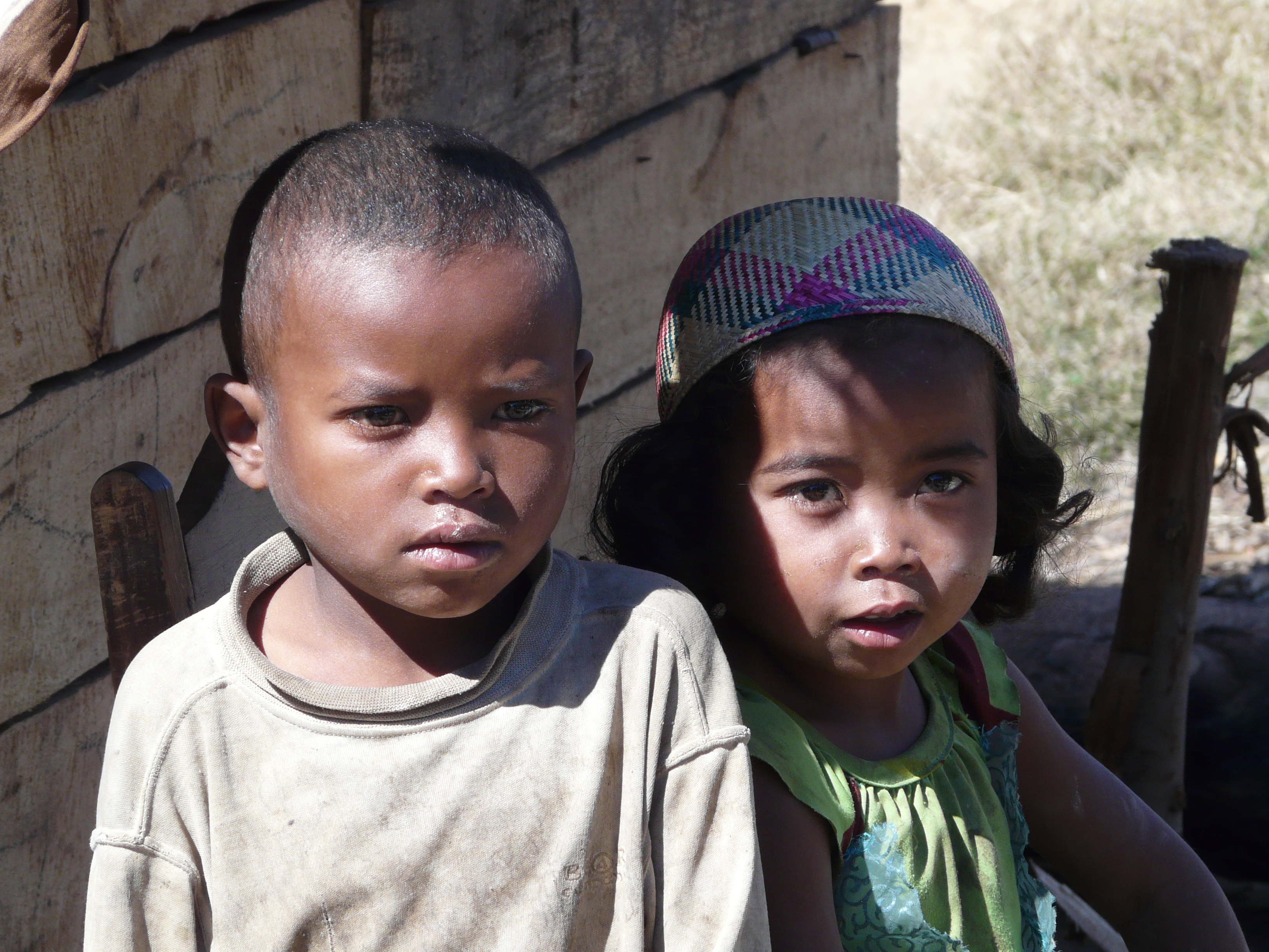 Betsileo Children